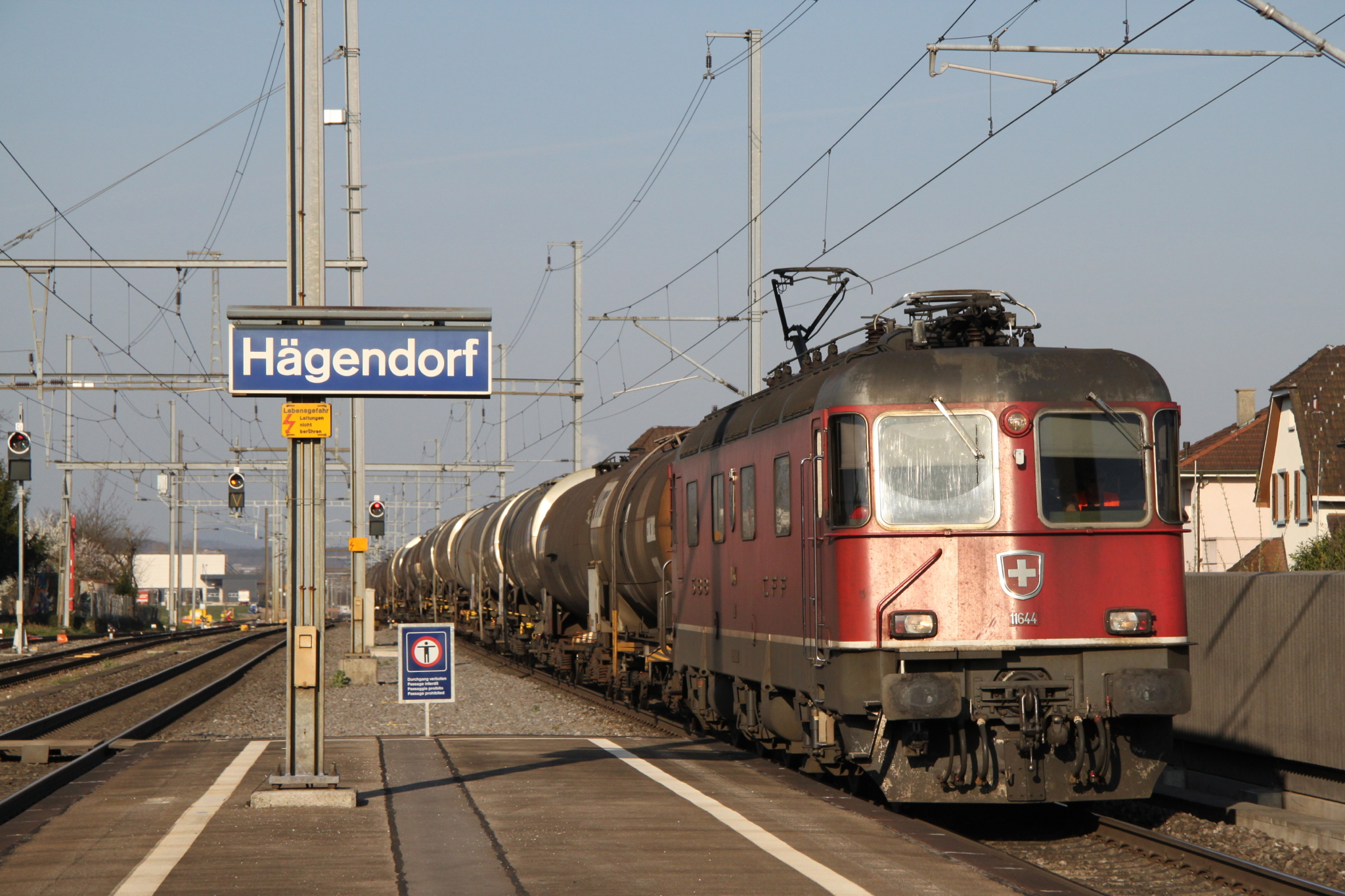 SBB CFF FFS Re 6/6 11644 passing through Hägendorf train station.